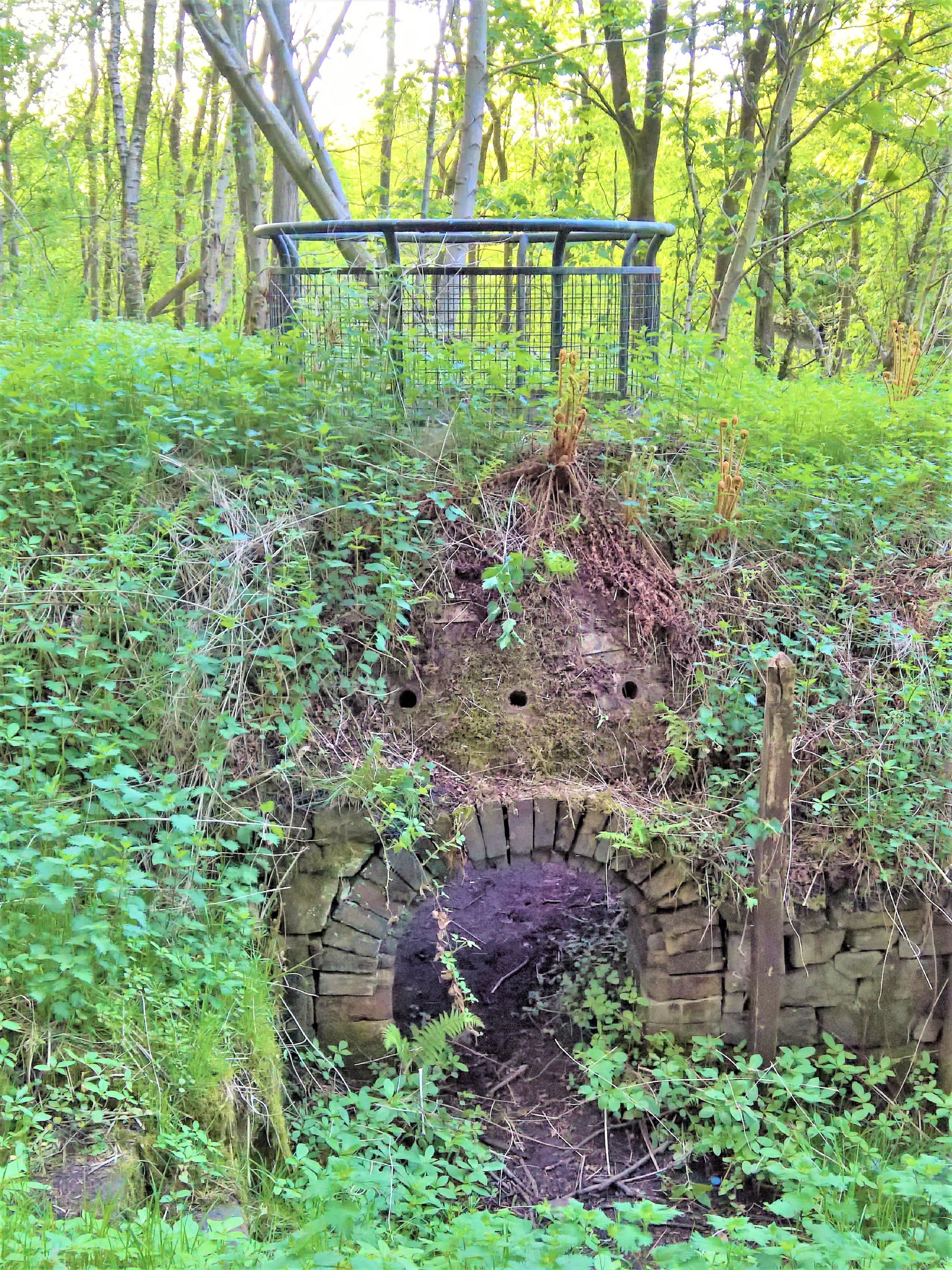 A re-built coke oven at the site of Towneley Colliery on the southern side of Burnley, Lancashire.